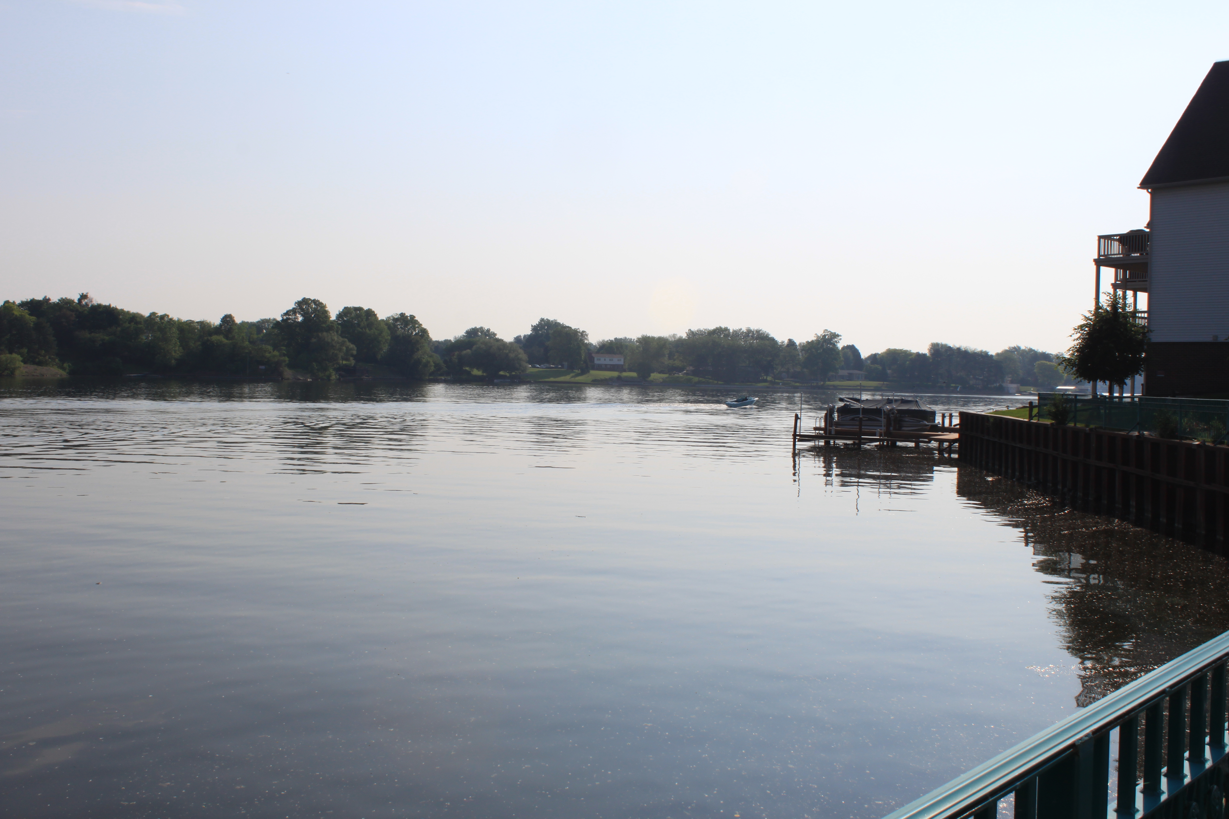 Belleville Michigan Edison Lake seen from Doane's Landing